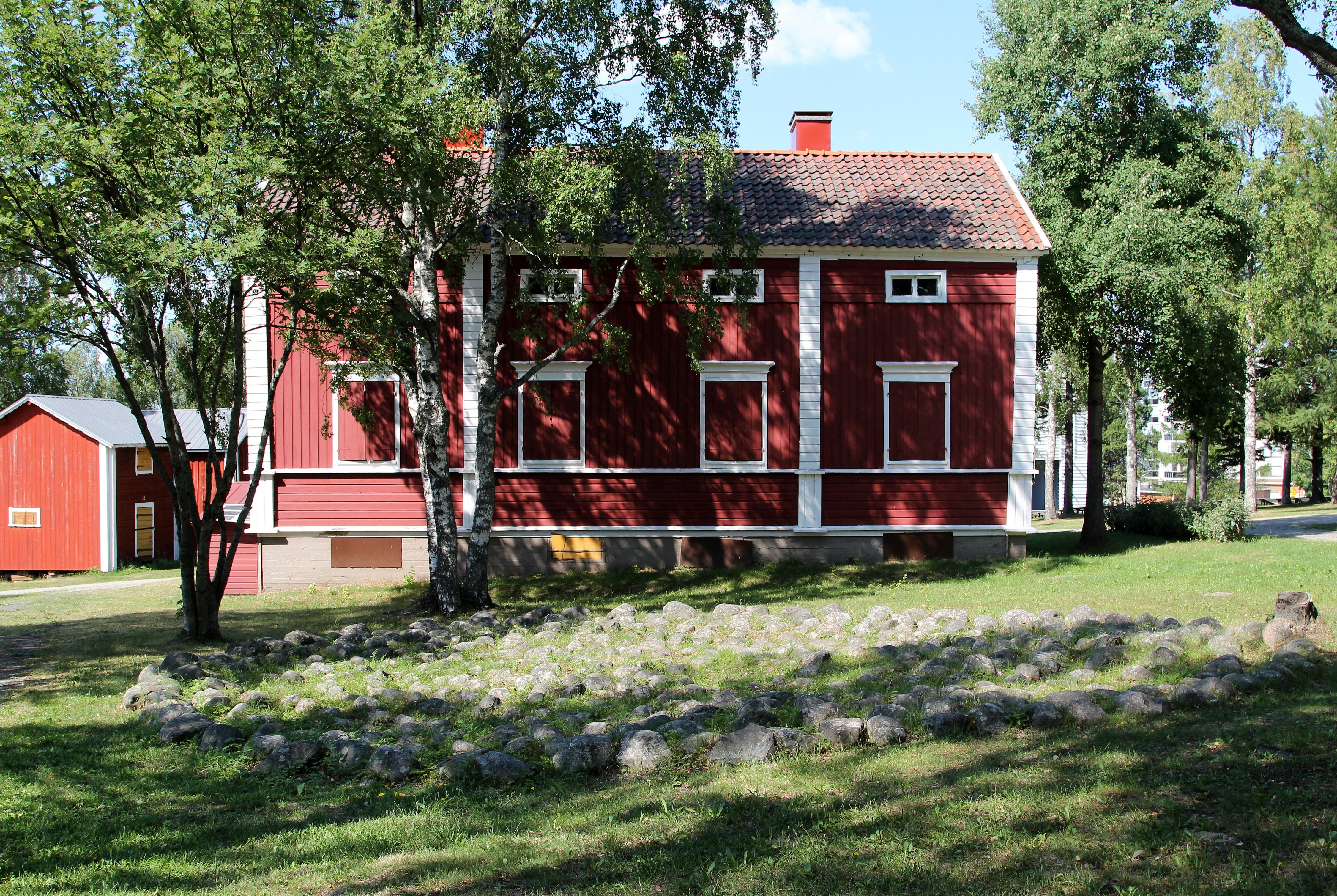 A rock maze in the Meripuisto Park in Kemi.